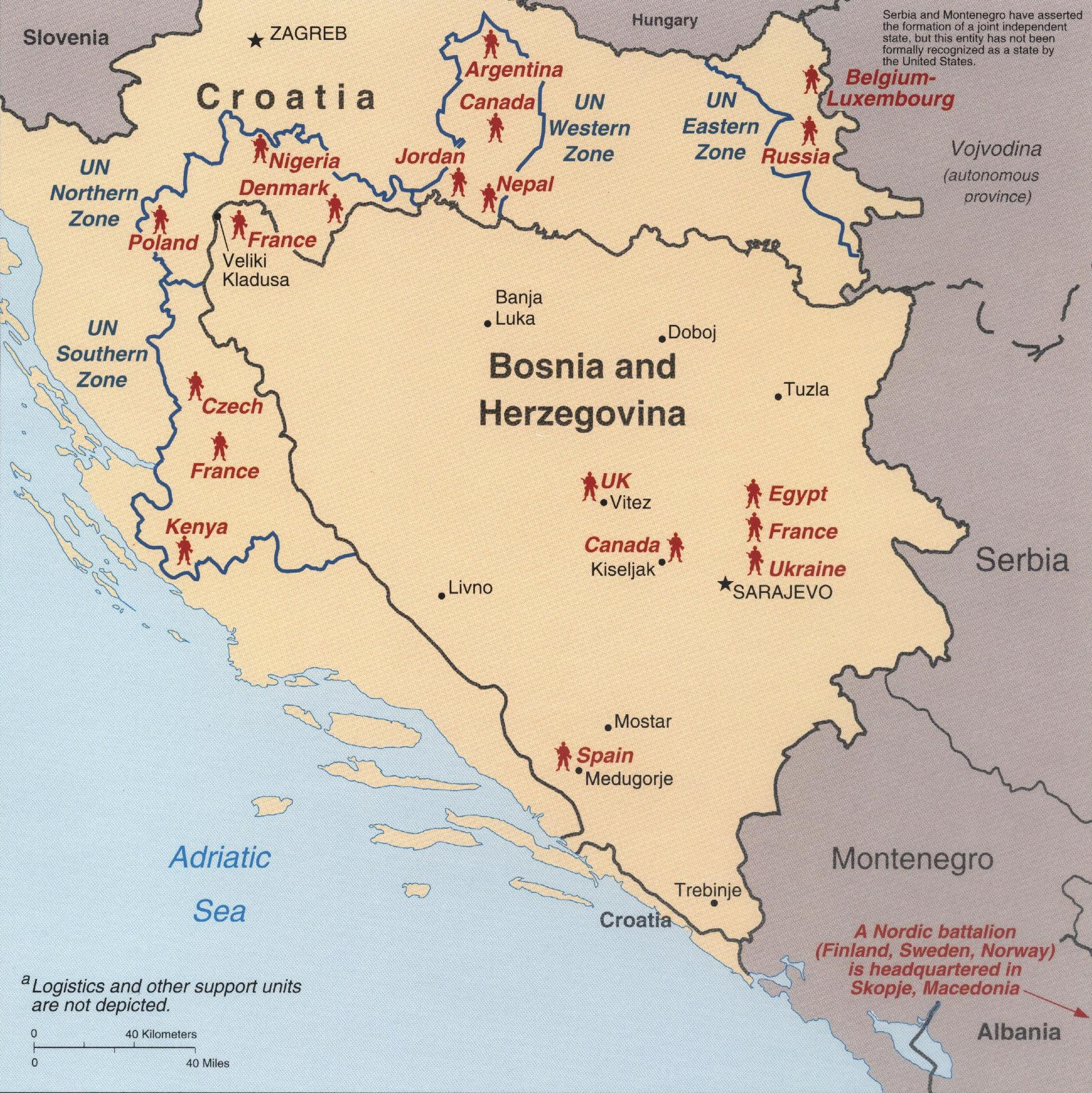 National Battalions in UN Forces in Croatia and Bosnia and Herzegovina, Early 1993